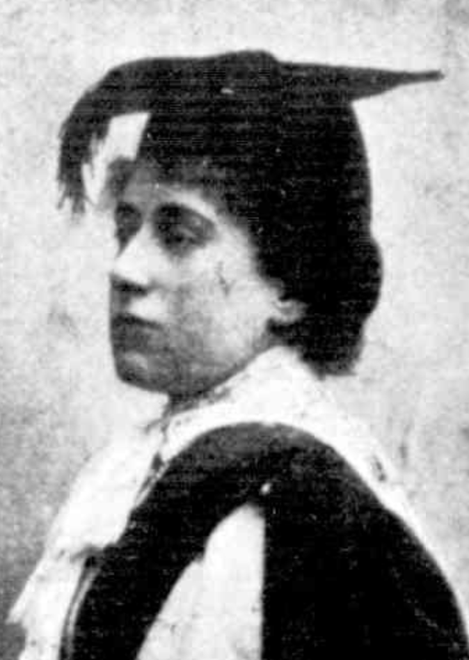 Dr Constance Ellis (1872-1942), Australian gynaecologist and obstetrician, first woman to graduate from University of Melbourne as Doctor of Medicine